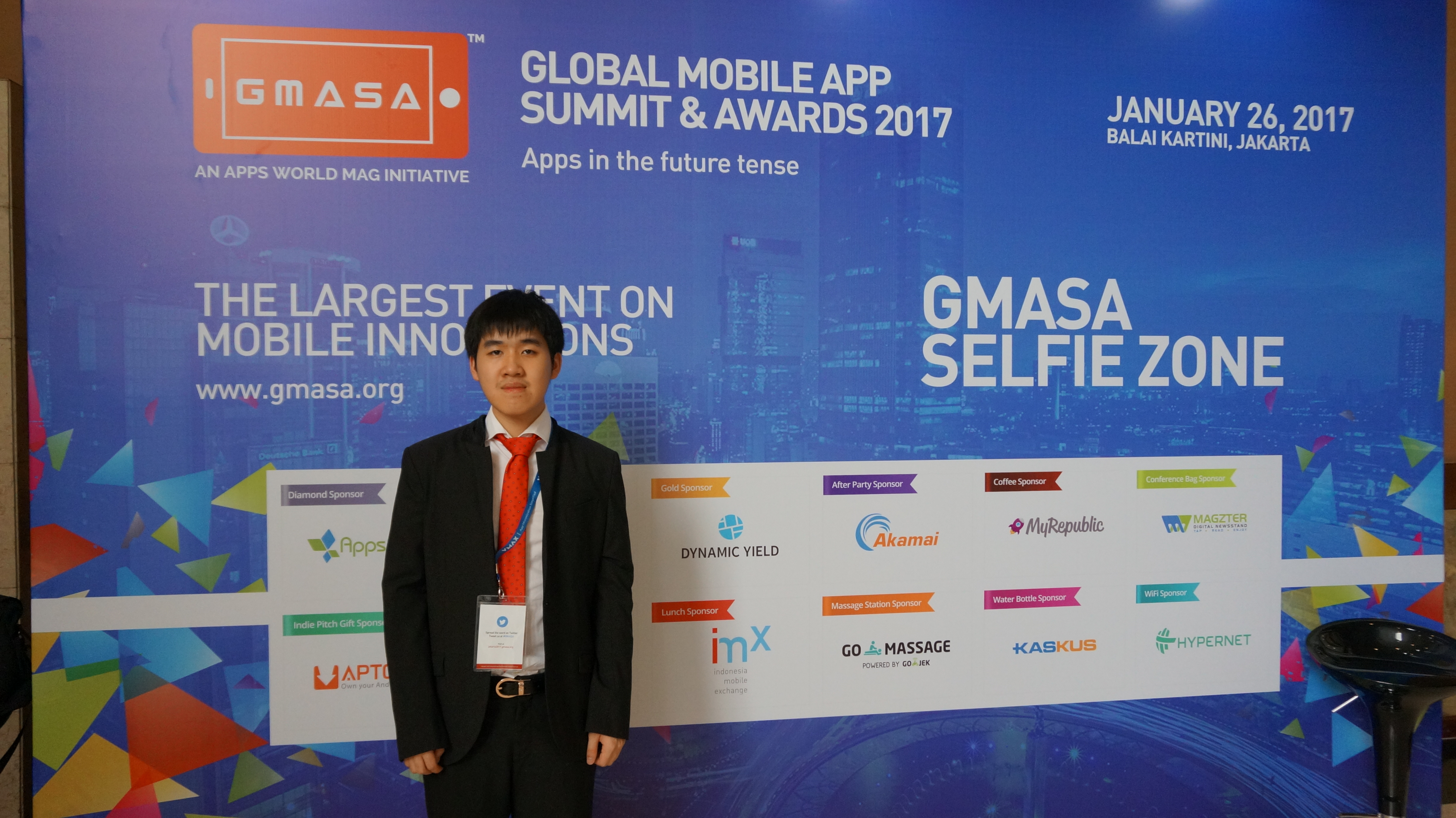 The image shows Renaldi Gondosubroto at the time he was being a speaker at the Global Mobile App Summit and Awards 2017 Jakarta.